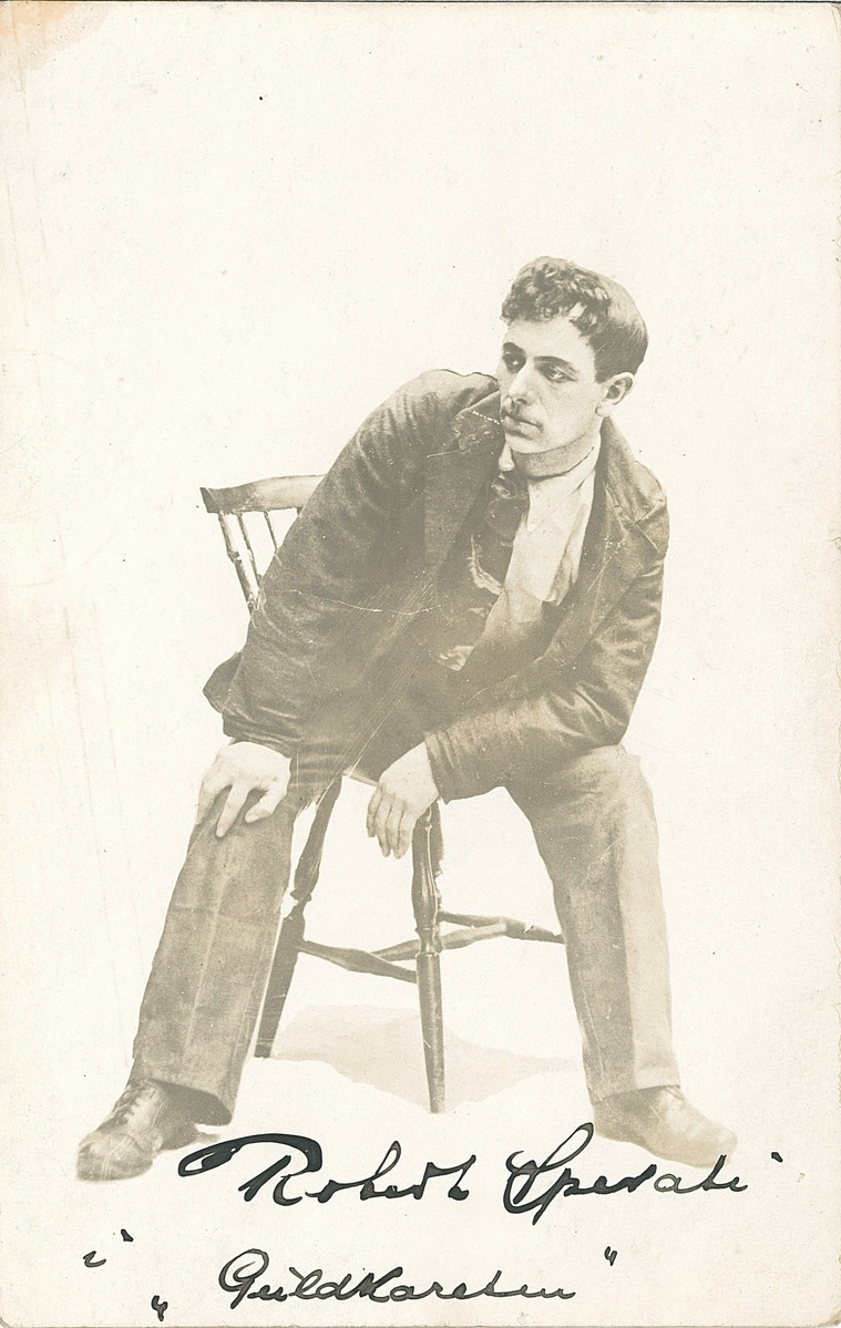 Norwegian actor Robert Sperati (born 1872), photo from about 1900